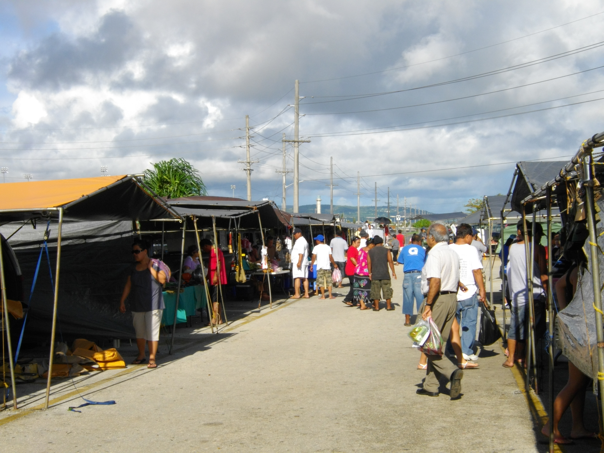 Dededo Flea Market